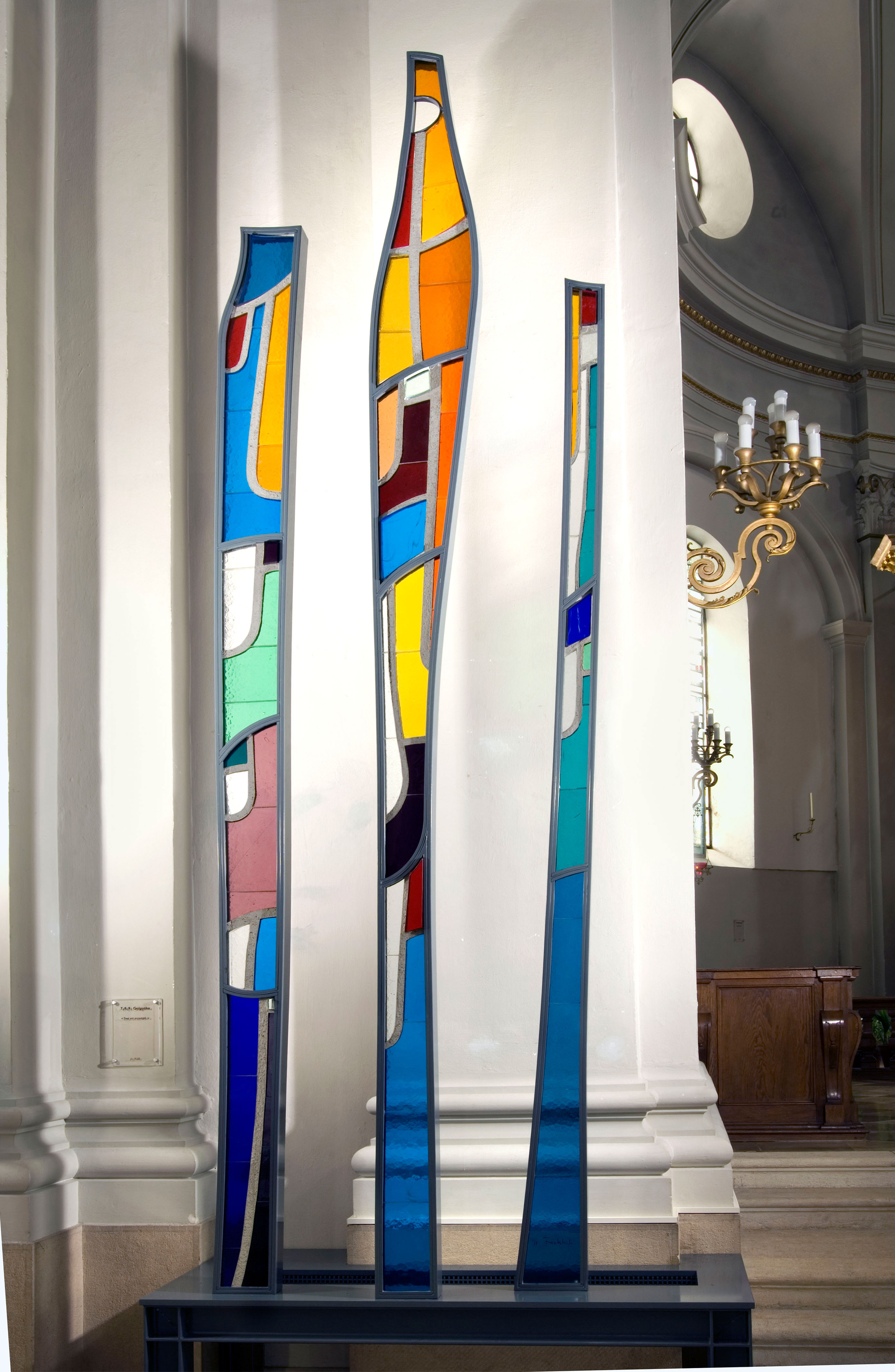 Golgotha, 2009. Part of the Saignelégier steles and stained glass project. Steel, glass (dalle de verre), 400 cm , backlighting